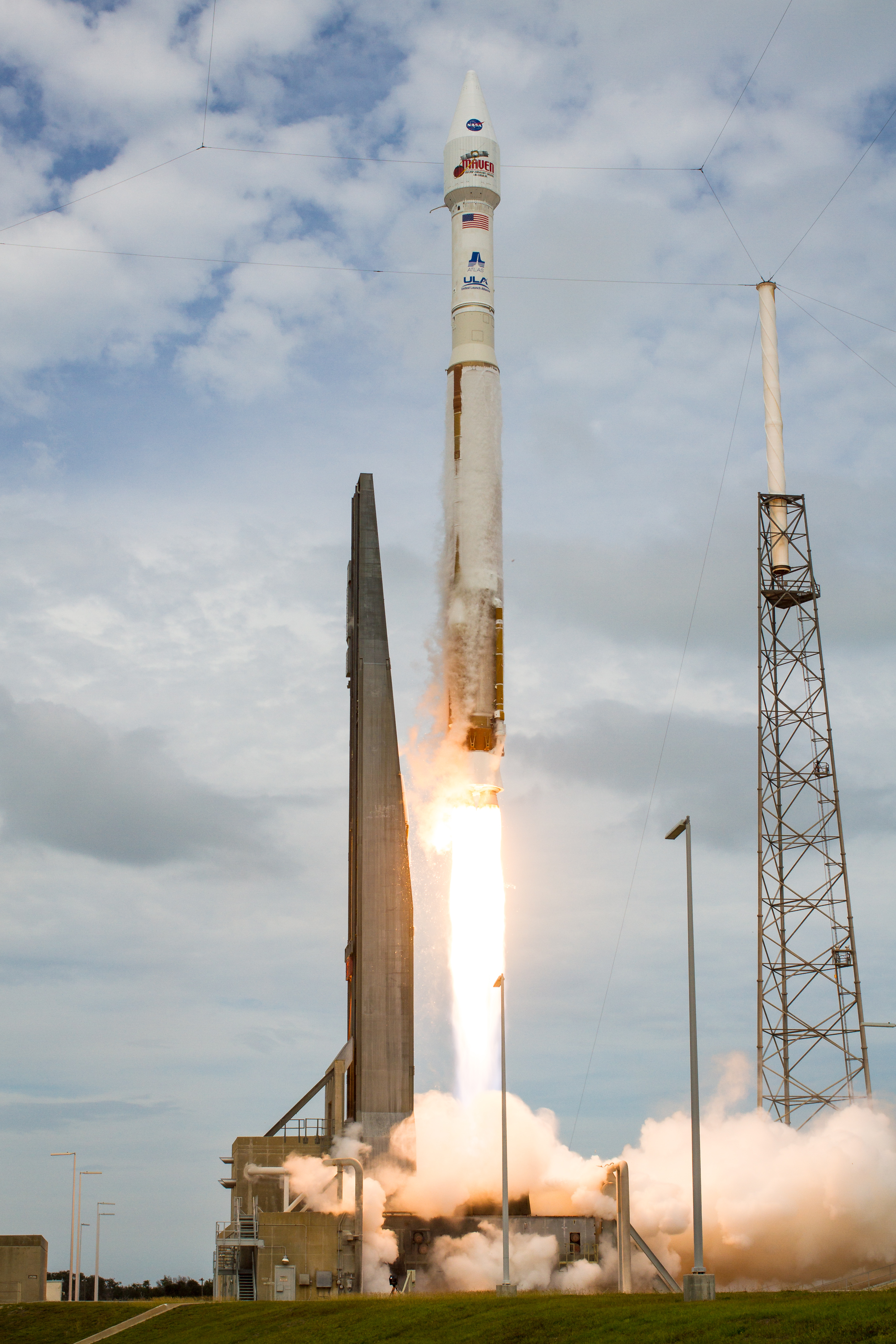 The United Launch Alliance Atlas V rocket with NASA’s Mars Atmosphere and Volatile Evolution (MAVEN) spacecraft launches from the Cape Canaveral Air Force Station Space Launch Complex 41, Monday, Nov. 18, 2013, Cape Canaveral, Florida. NASA’s Mars-bound spacecraft, the Mars Atmosphere and Volatile EvolutionN, or MAVEN, is the first spacecraft devoted to exploring and understanding the Martian upper atmosphere.